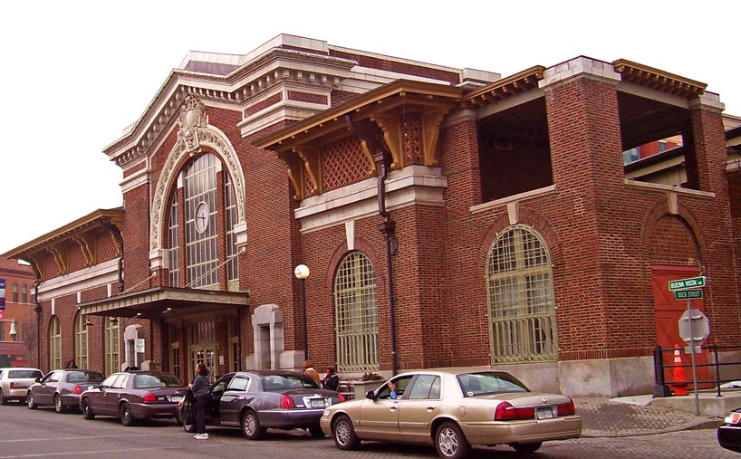 Photographed by Daniel Case 2007-03-22.